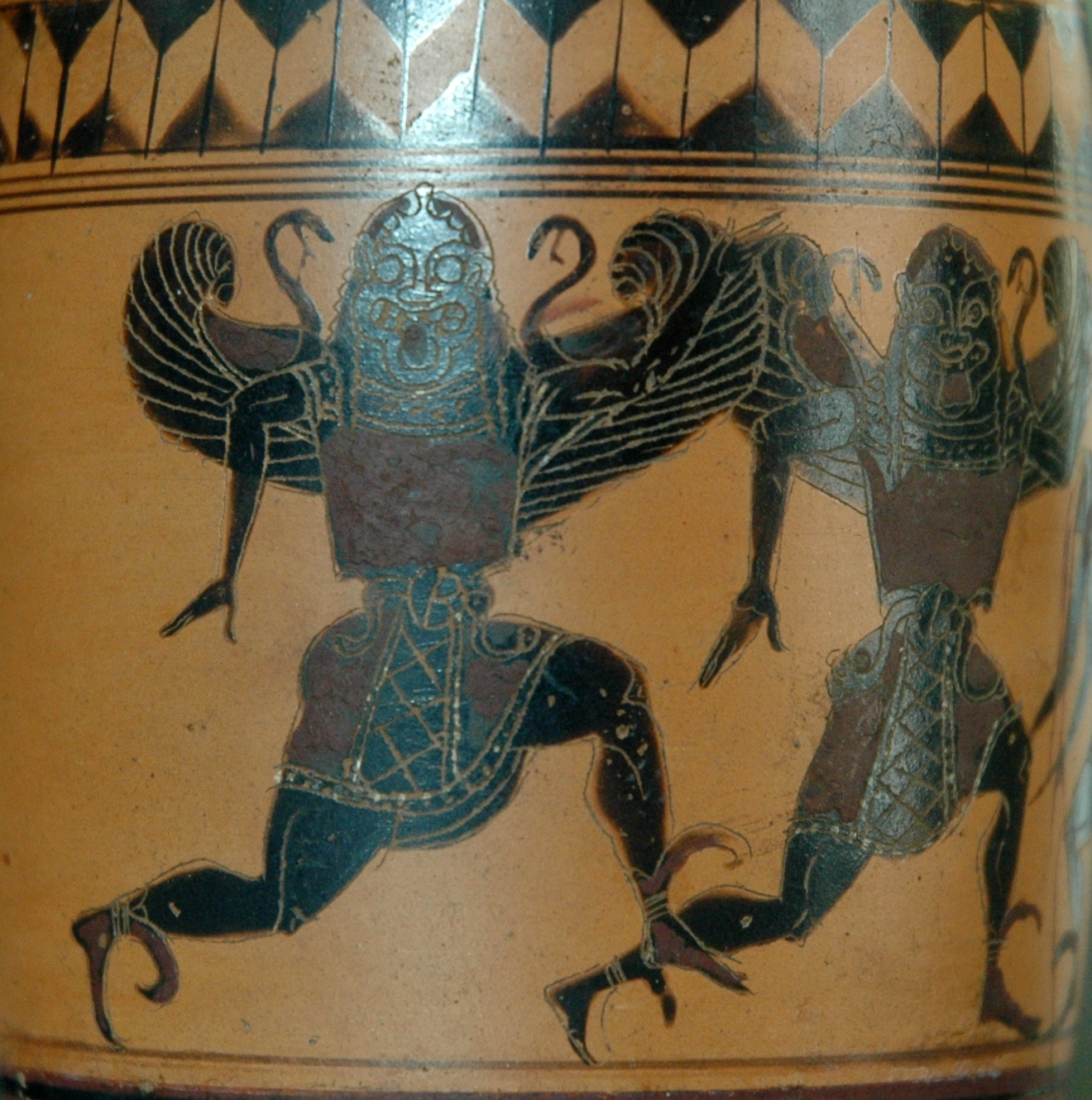 Gorgons. Attic black-figure lekythos, ca. 530 BC.